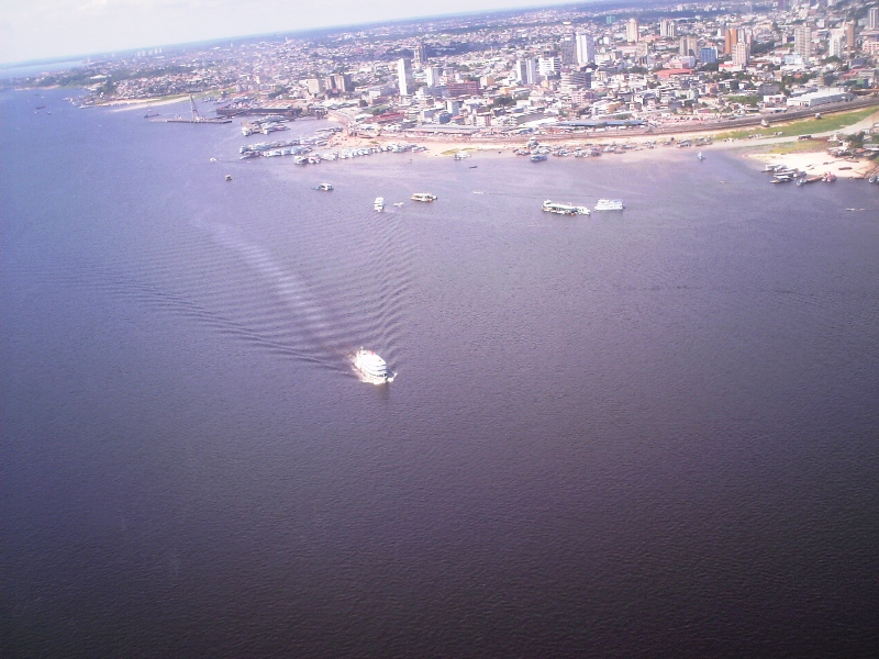 Manaus city, Amazonas, Brazil; Negro river.